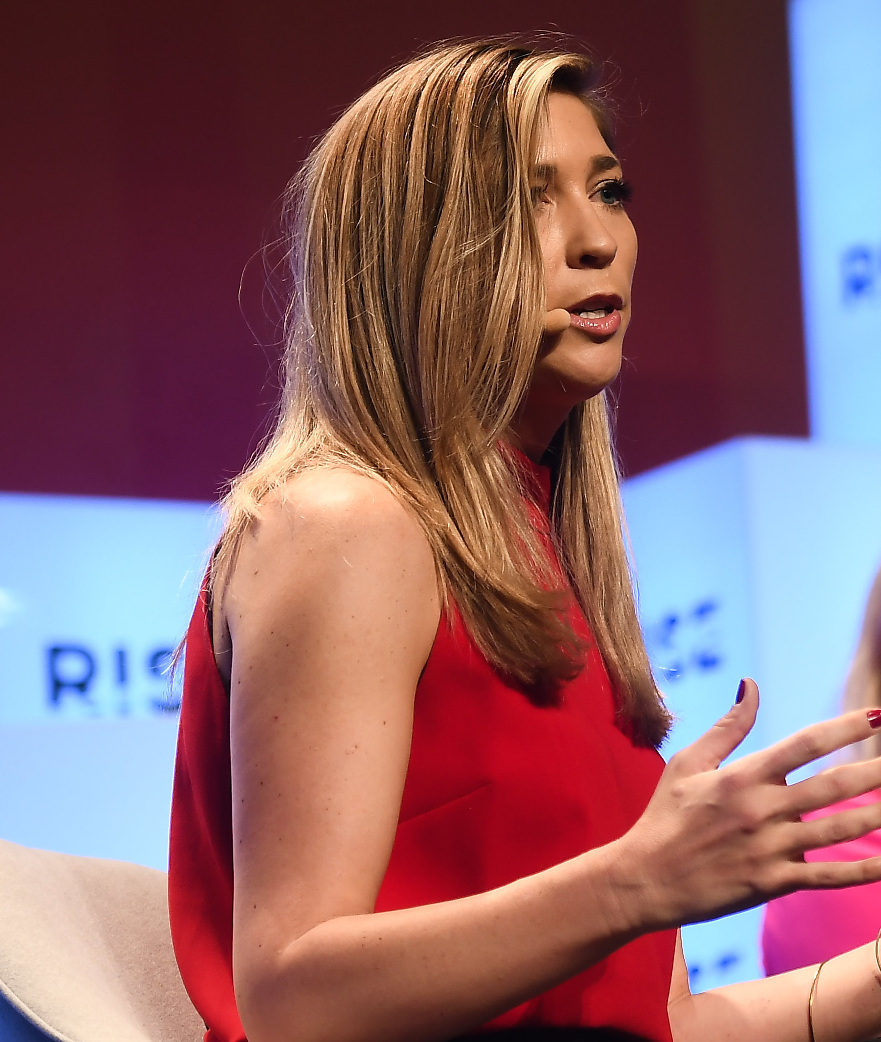 9 July 2019; Speakers, from left, Cynthia Johnson, CEO & Author, Entrepreneur Magazine/Bell & Ivy, Amy Buckner Chowdhry, Founder & CEO, AnswerLab, and Greg Lutze, Founder, VSCO, on Centre Stage during day one of RISE 2019 at the Hong Kong Convention and Exhibition Centre in Hong Kong. Photo by David Fitzgerald/RISE via Sportsfile